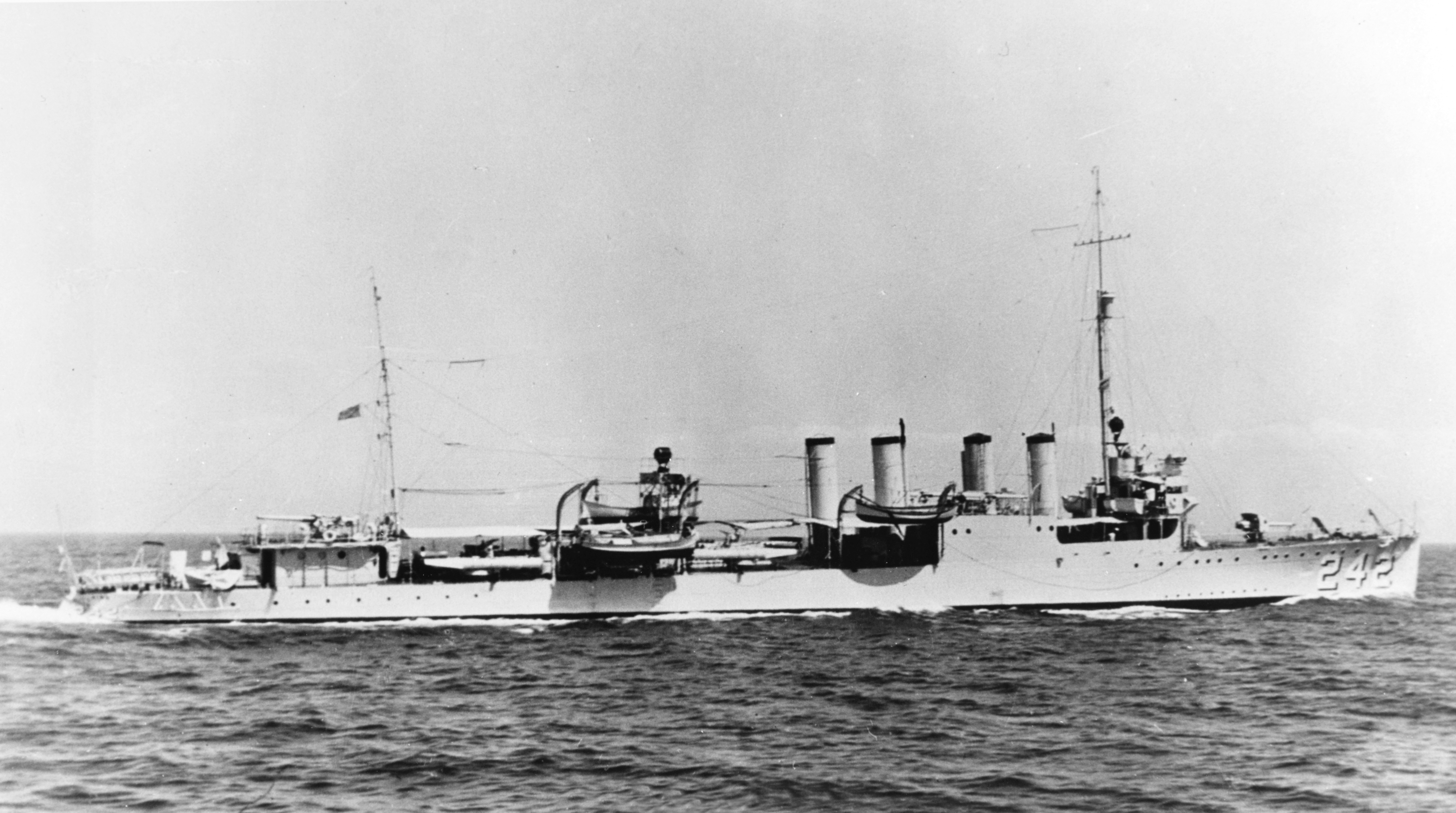 The U.S. Navy destroyer USS King (DD-242) underway, circa in the 1930s.